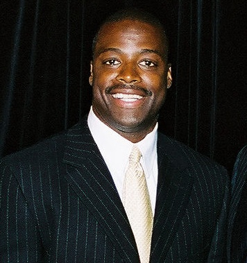 Darrell Green, former American football player.